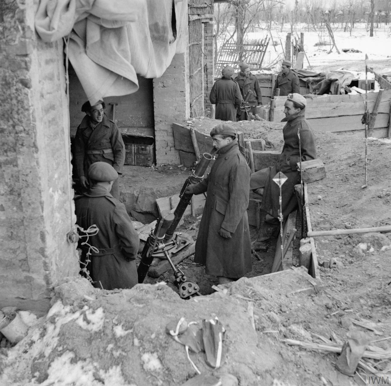 The British Army in Italy 1945 3-inch mortars of 1st King's Royal Rifle Corps set up beside a farm building, 27 January 1945.